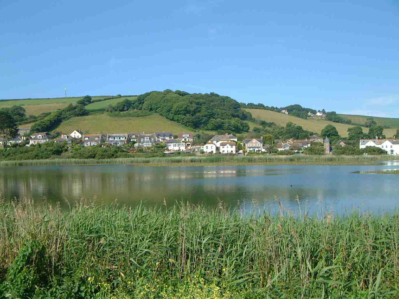 The "inland" part of Torcross seen from across Slapton Ley. Personal photograph taken by Mick Knapton on June 30th 2006